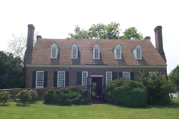 National Park Service photo